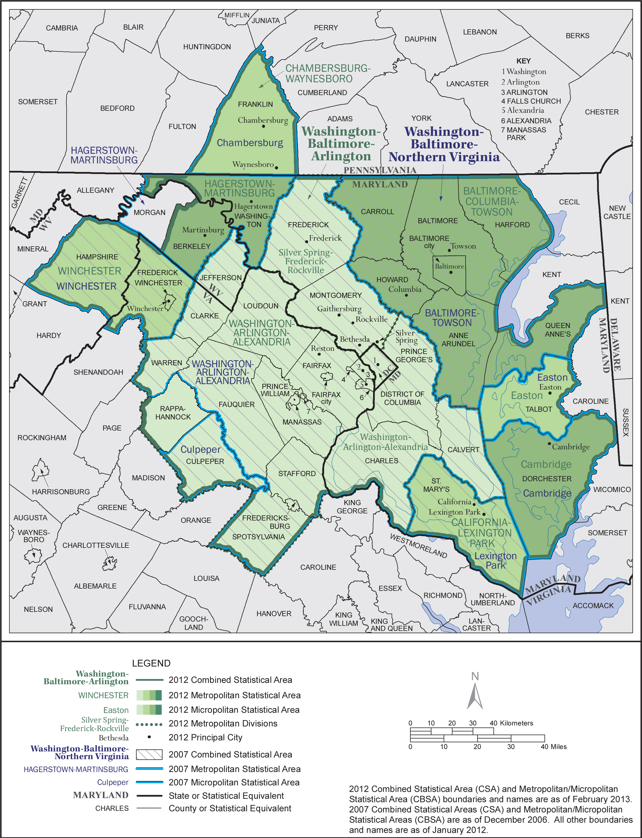 Map of the Washington-Baltimore-Arlington, DC-MD-VA-WV-PA Combined Statistical Area released as part of the US Census Bureau's 2012 Economic Census